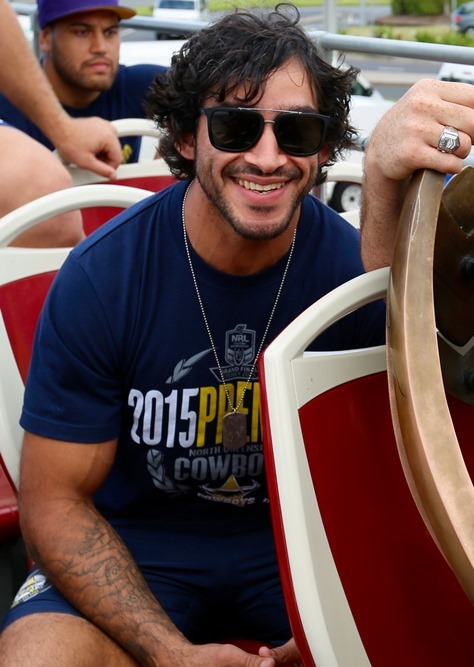 Johnathan Thurston & Matt Scott